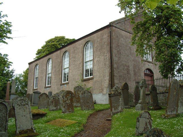 St Marnoch's Church Benholm This church was closed to regular worship in 2003, and is now in the care of 'Scottish Redundant Churches Trust'.